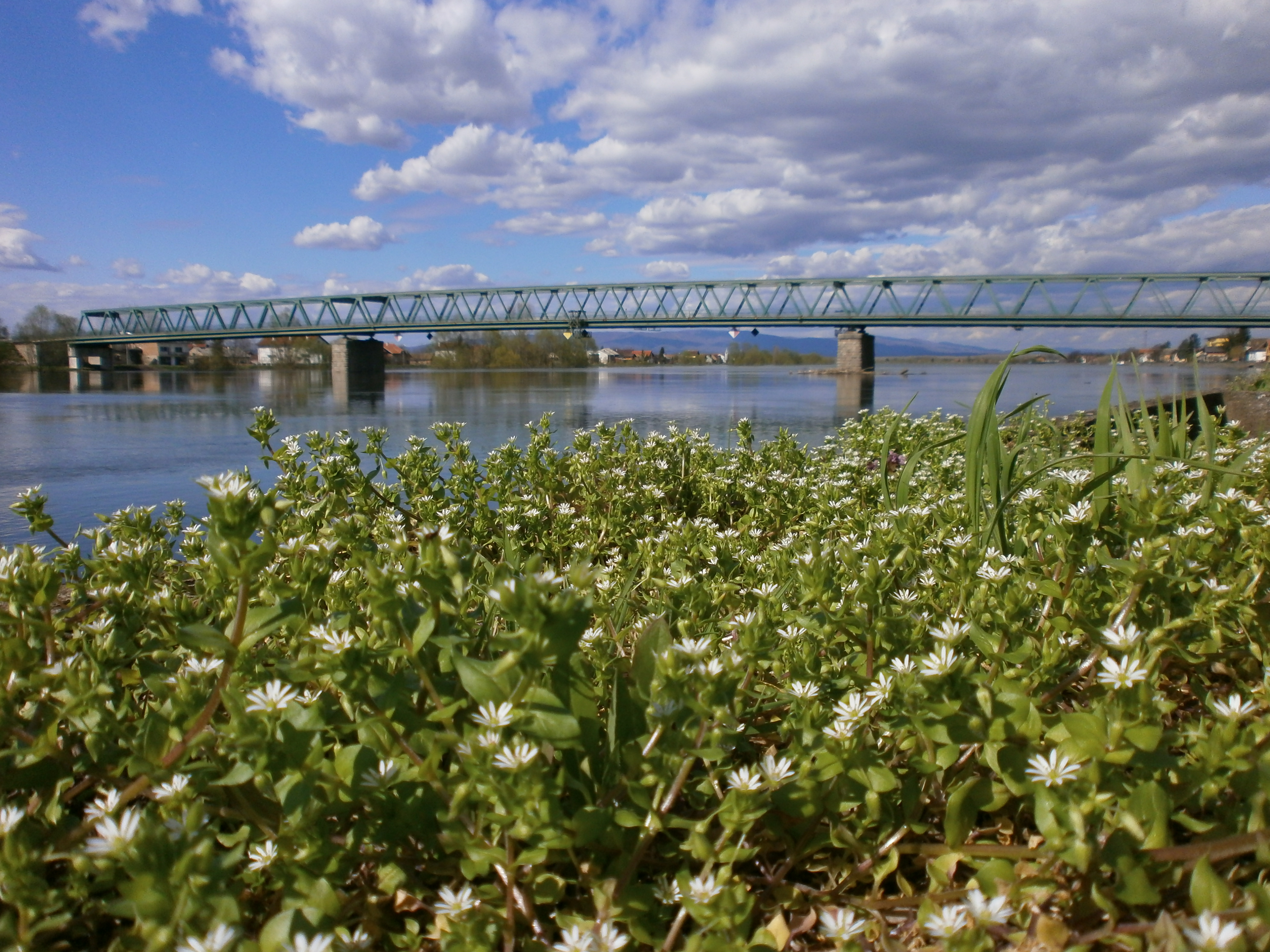 Bridge on Sava River in Gradishka